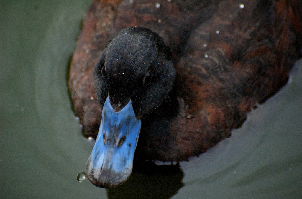 Blue-billed Duck, Perth Zoo, 2010.